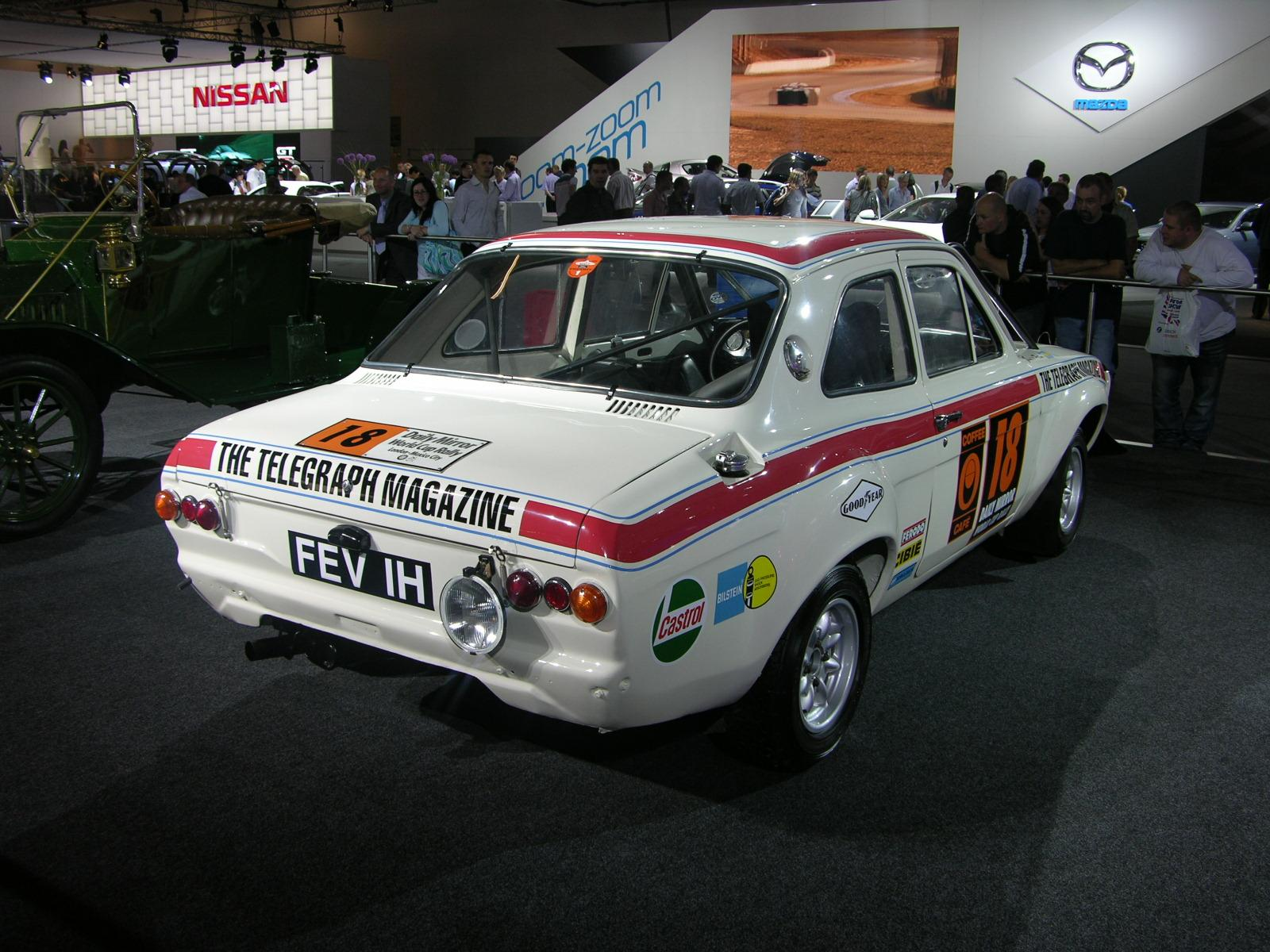 The Ford Escort (pushrod engined prototype based on the RS1600) which won the 1970 London to Mexico World Cup Rally, in the hands of Hannu Mikkola, at the 2008 British International Motor Show. Mikkola's co-driver was Gunnar Palm.